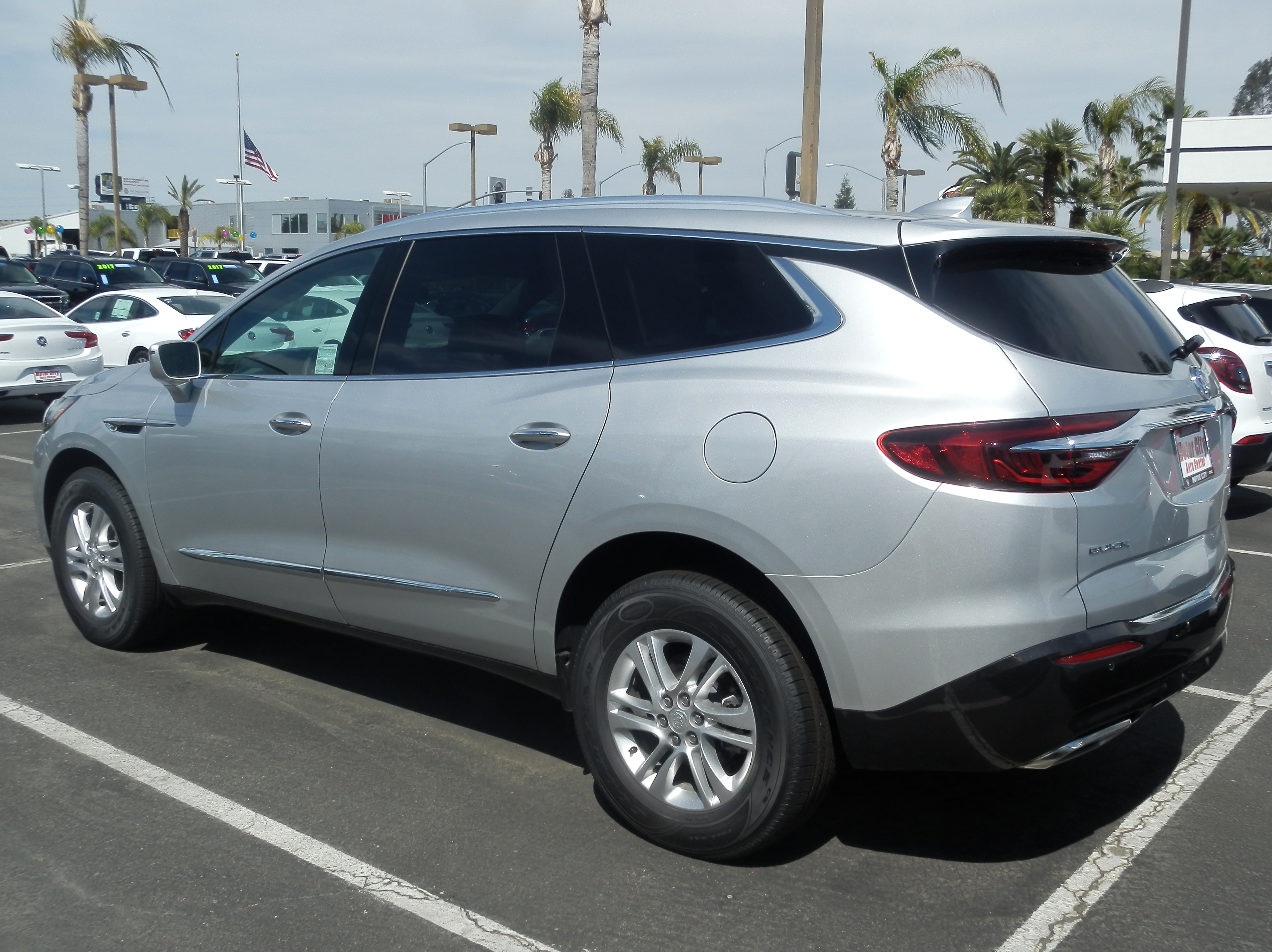 Buick Enclave in Bakersfield